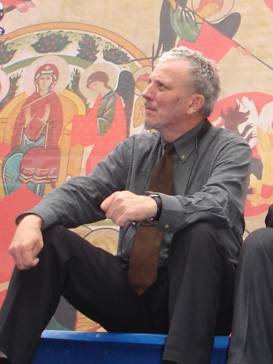 Kiko Arguello, fundator Itineris Neocatechumenalis